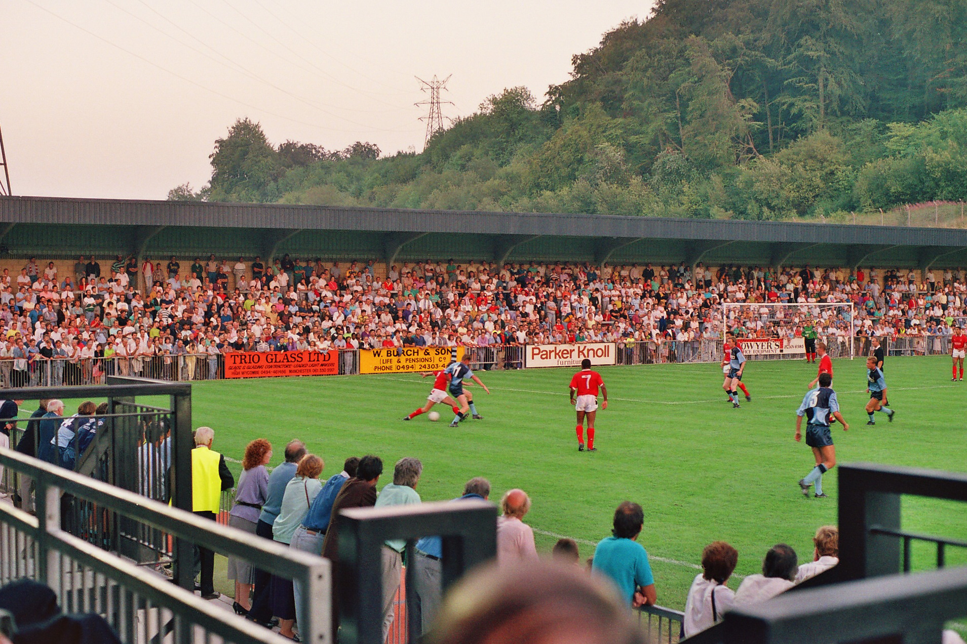 The first ever match at Adams Park v Nottingham Forest 09/08/1990